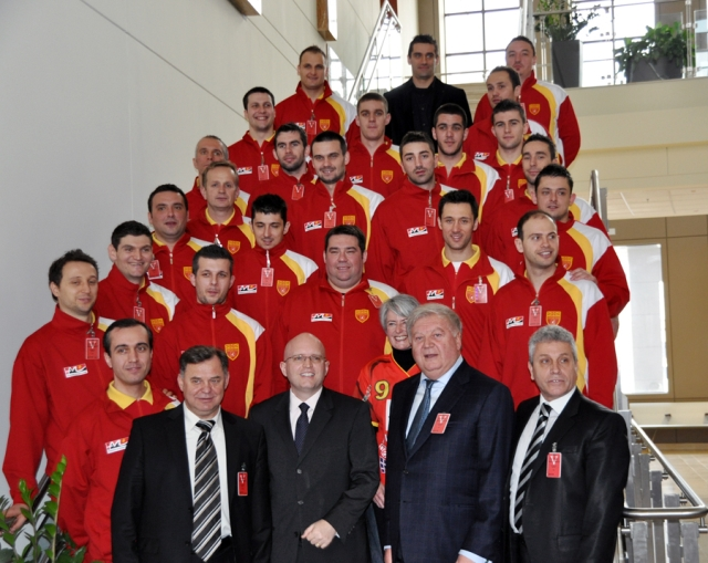 US Ambassador in Macedonia, Reeker welcome the Macedonian National Handball Team to the Embassy in Skopje.